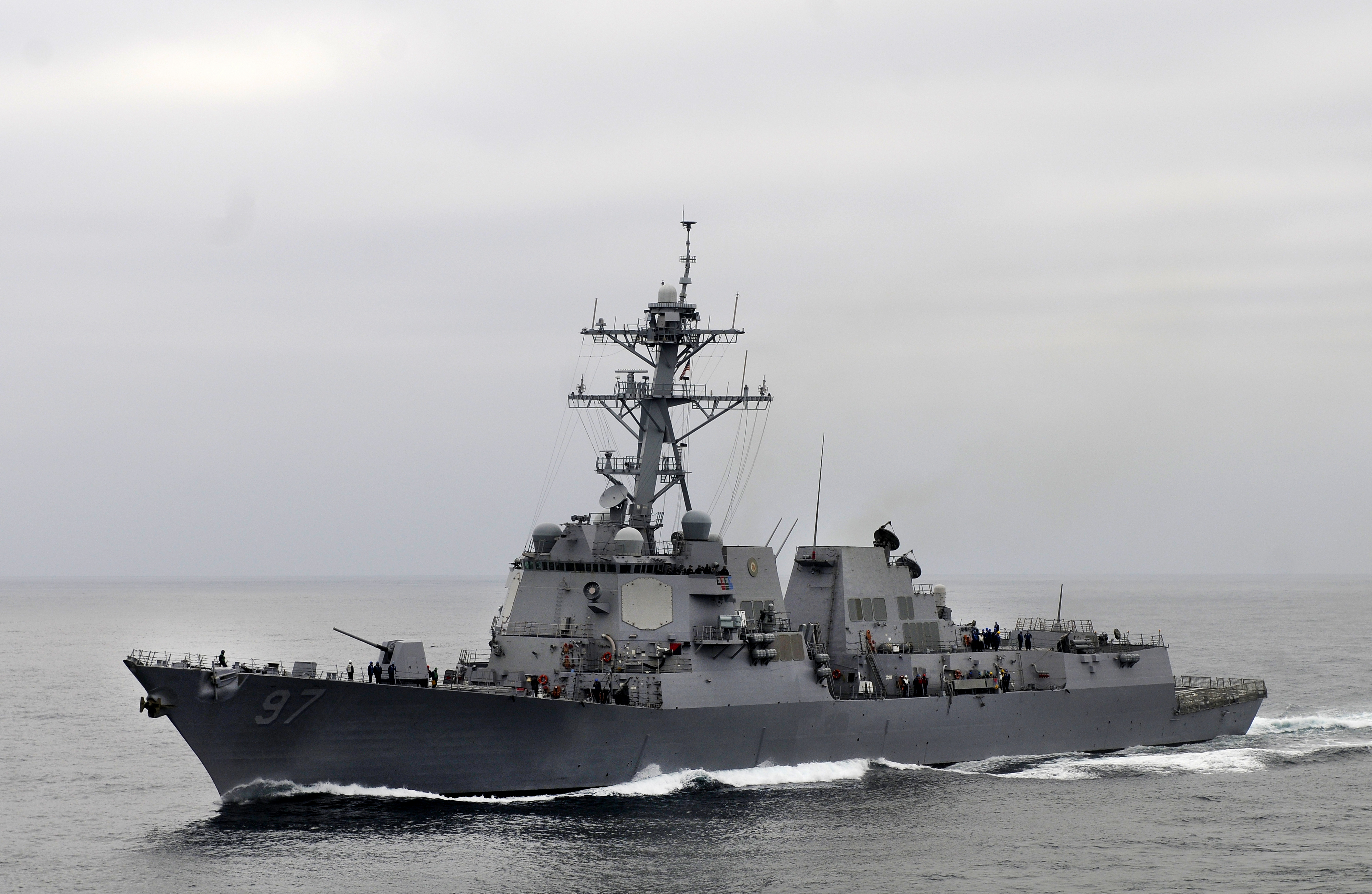 PACIFIC OCEAN (Sept. 18, 2011) The Arleigh Burke-class guided-missile destroyer USS Halsey (DDG 97) transits the Pacific Ocean. Halsey is conducting a three-week composite training unit exercise in preparation for a deployment to the western Pacific Ocean. (U.S. Navy photo by Mass Communication Specialist Seaman John Grandin/Released)